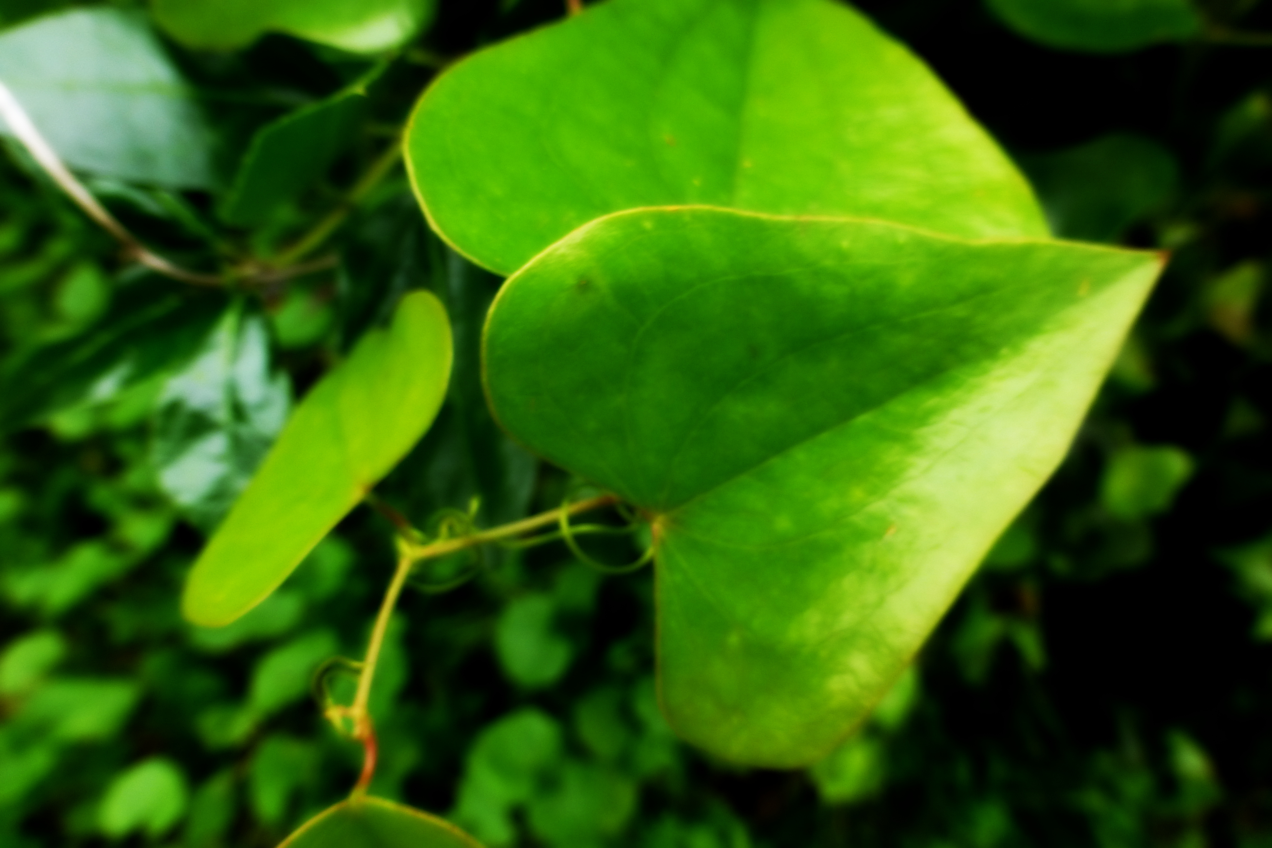 Leaves